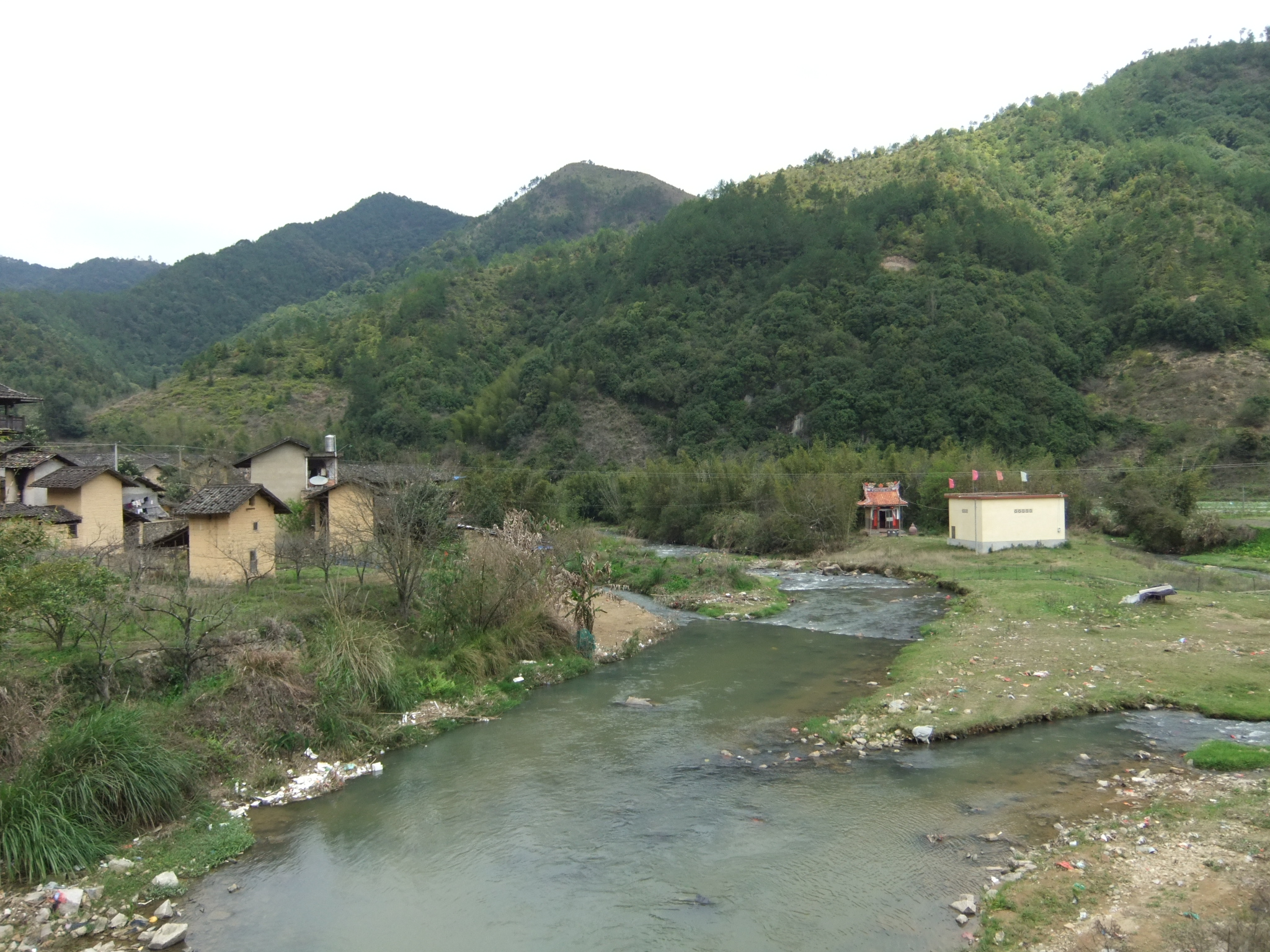 A hamlet north-east of Hukeng Village (Hukengcun, the main settlement of Hukeng Town), seen when coming by road from Hongkeng. Administratively, this is probably still part of Hukeng Village. According to Google Maps, the place may be called Shihuicun (石灰村).